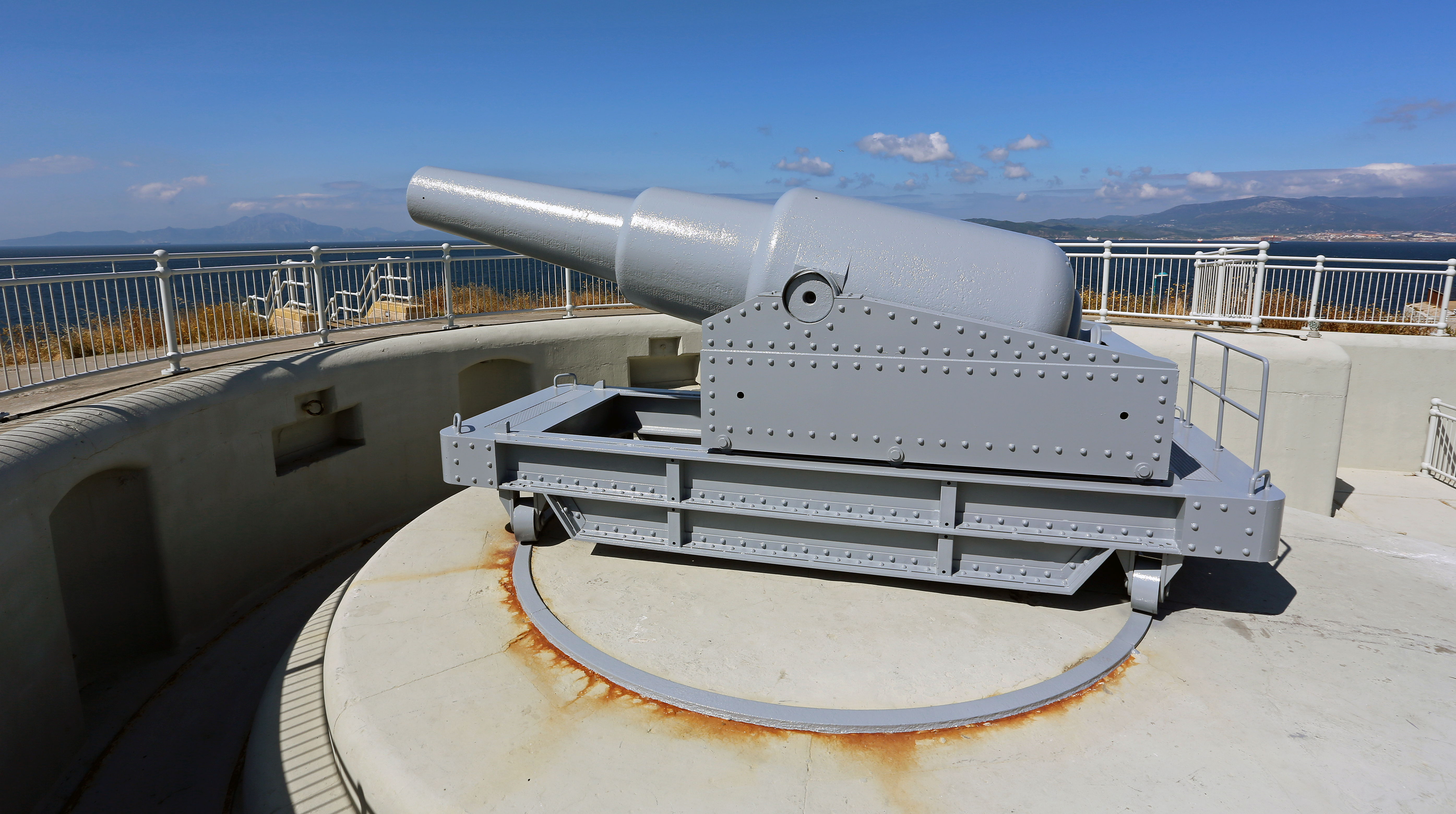 Harding's battery was originally built in 1859. It had been abandoned and buried under a mound of sand for years that served as a Tourists' Observation Point of the Straits of Gibraltar. It t was unearthed in 2010 and refurbished as part of a makeover of the whole of the Europa Point area.